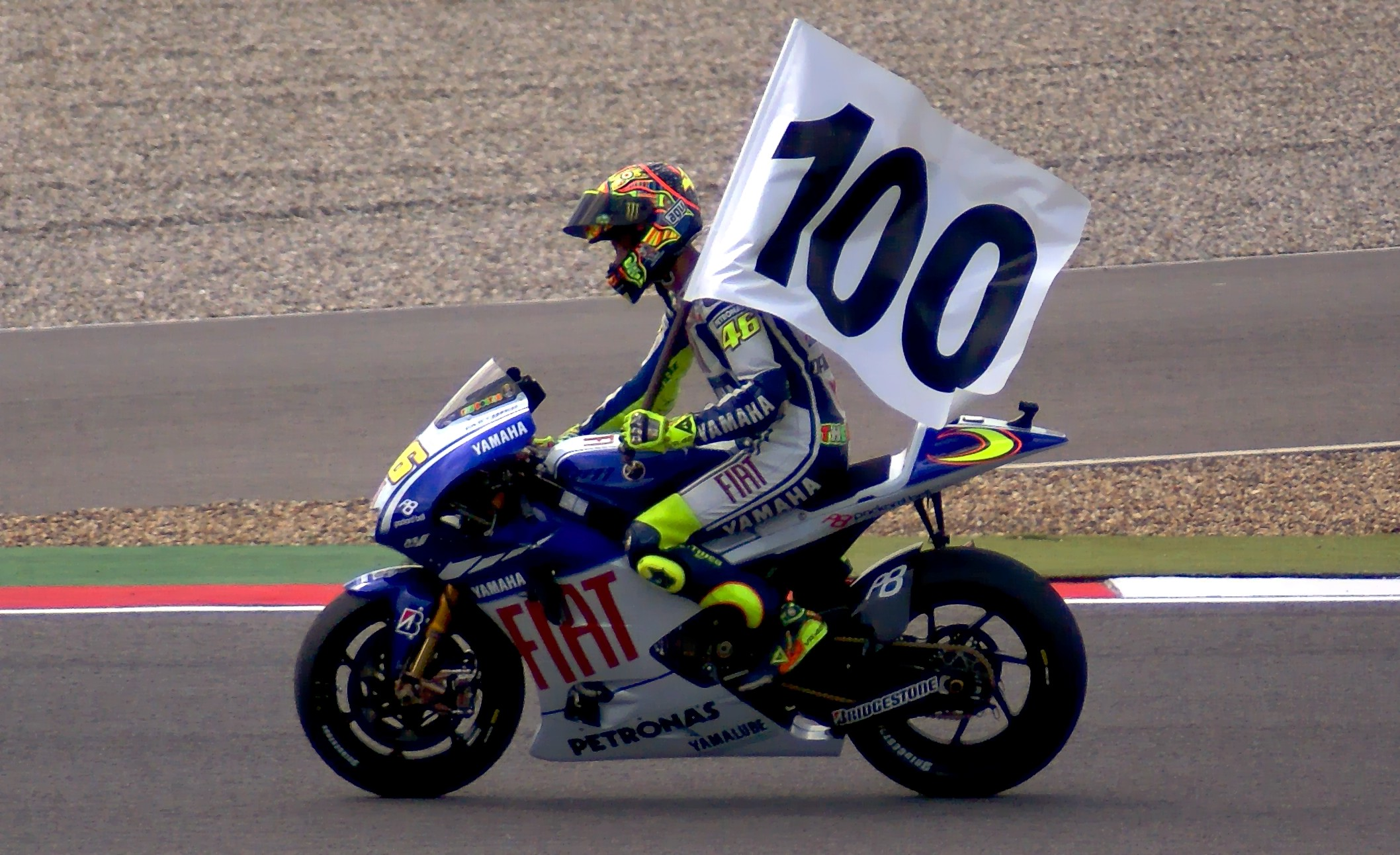 Valentino Rossi celebrates his hundredth victory in career in Netherlands Gran Prix.